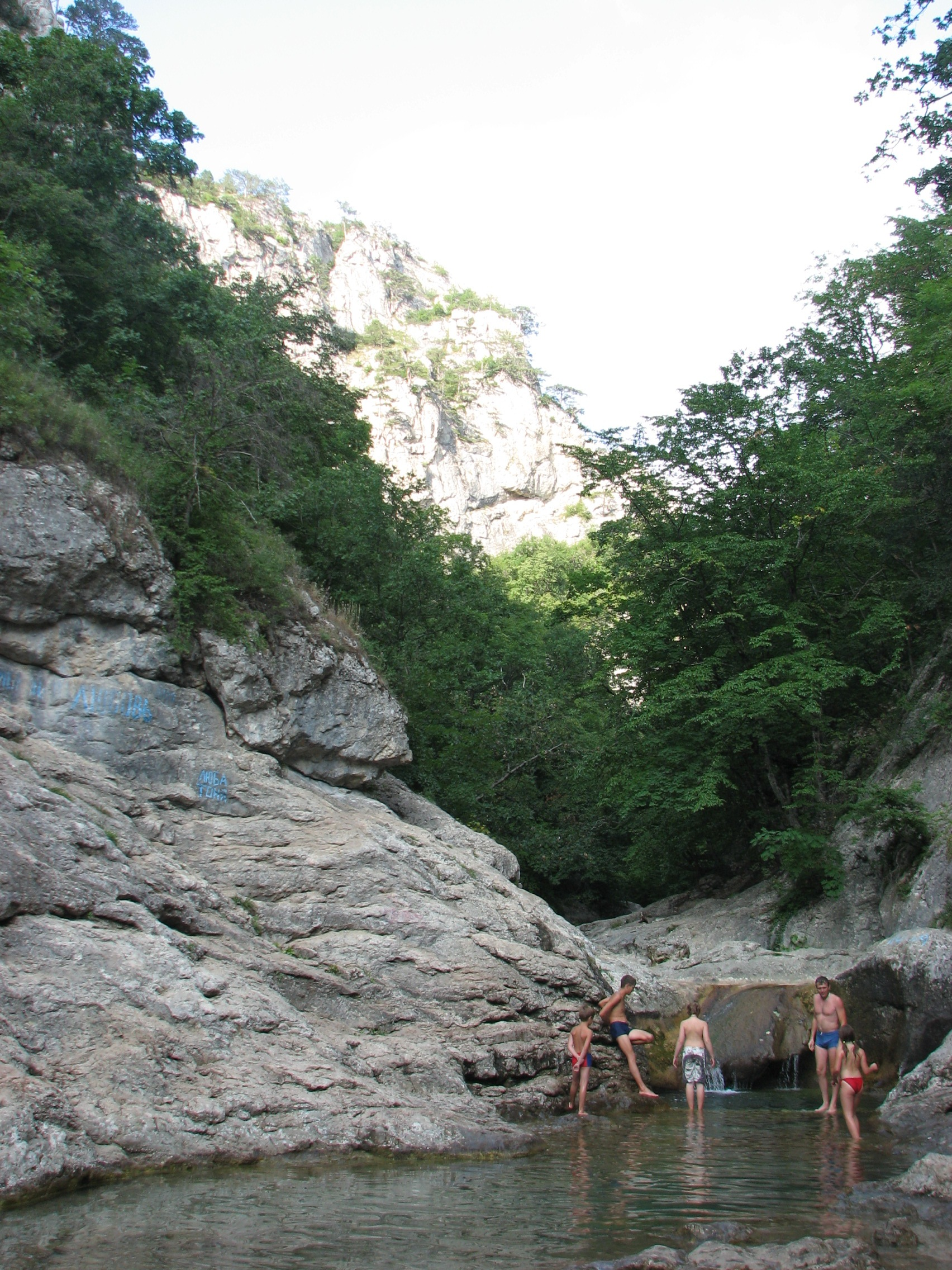 The local protected territory "Grand Canyon of Crimea" (Crimea, Ukraine)